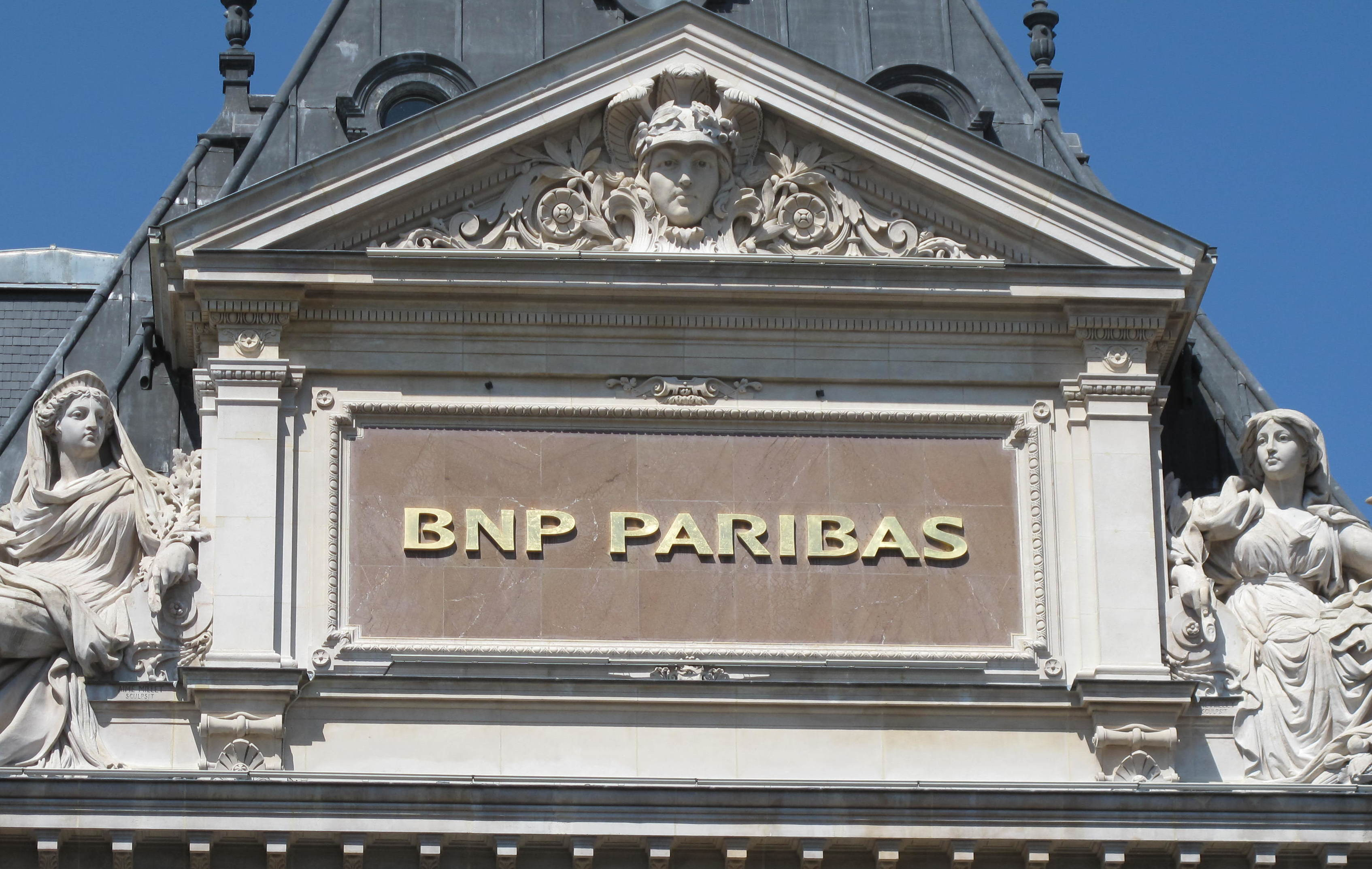 Pediment of the head offices of the former bank CNEP, now BNP-Paribas, 14-20 rue Bergère, Paris 9th arr.